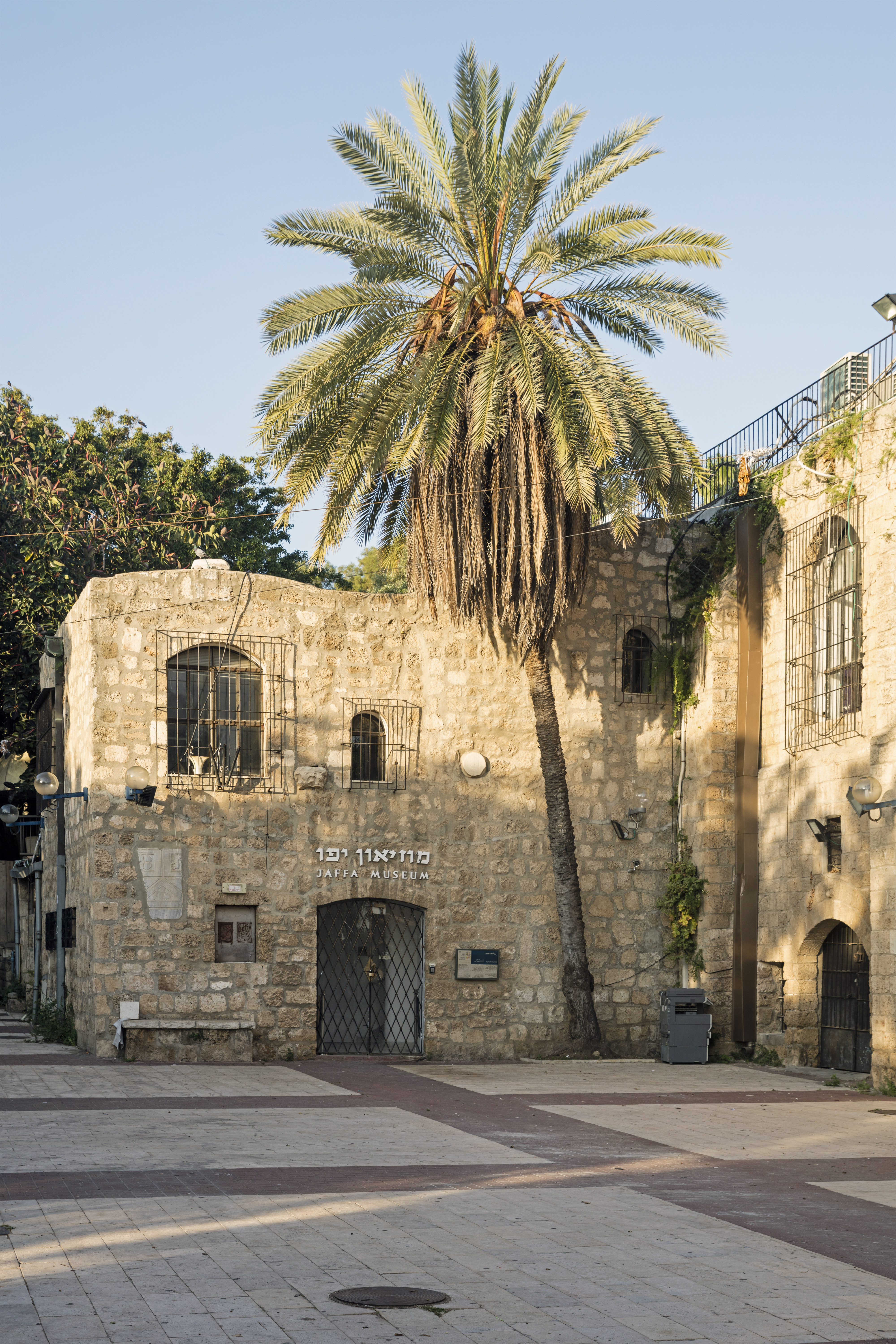 Old Saray house, Jaffa, Israel